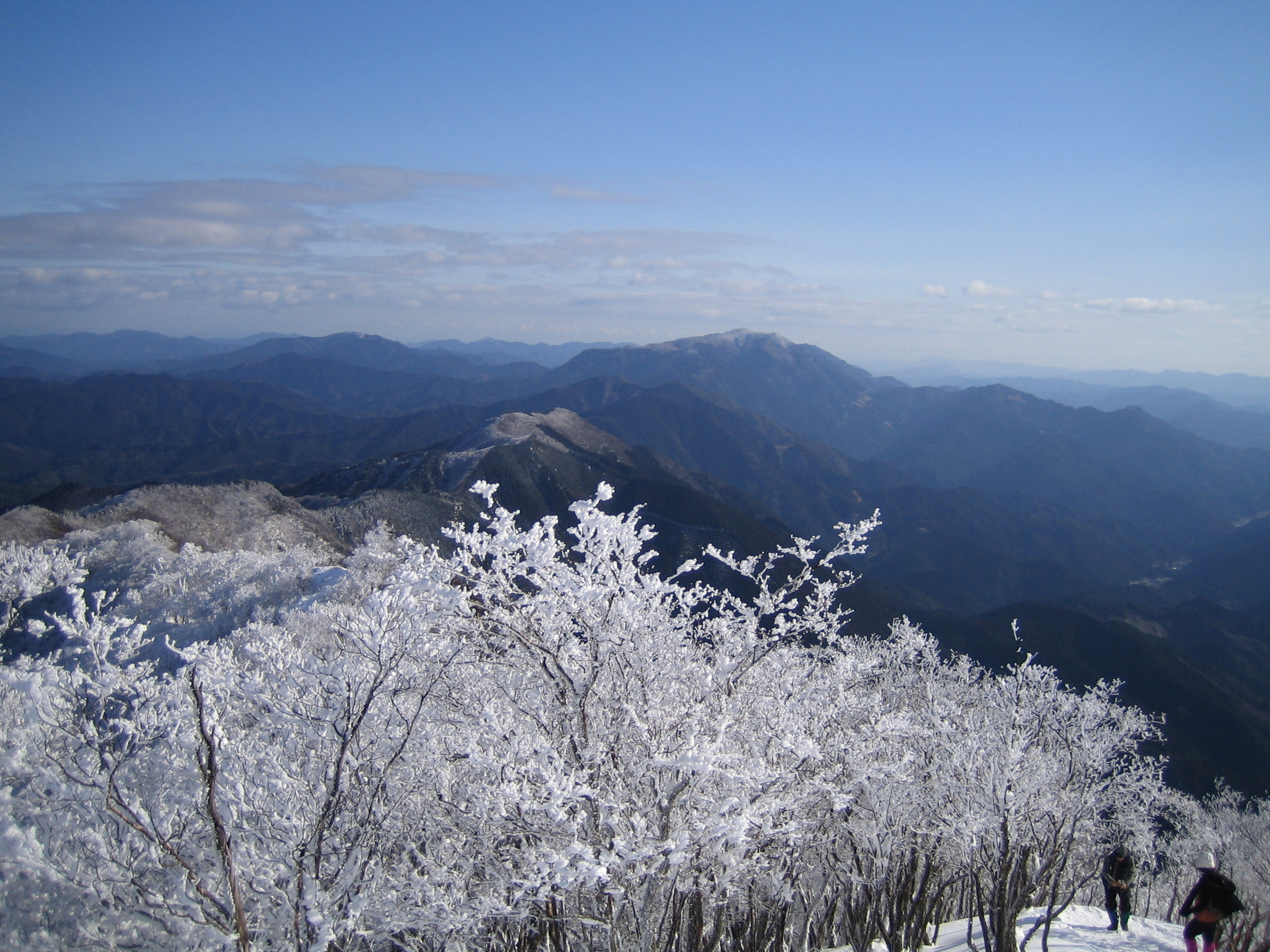 East side view from the top of Mount Takami, Honshu, Japan.